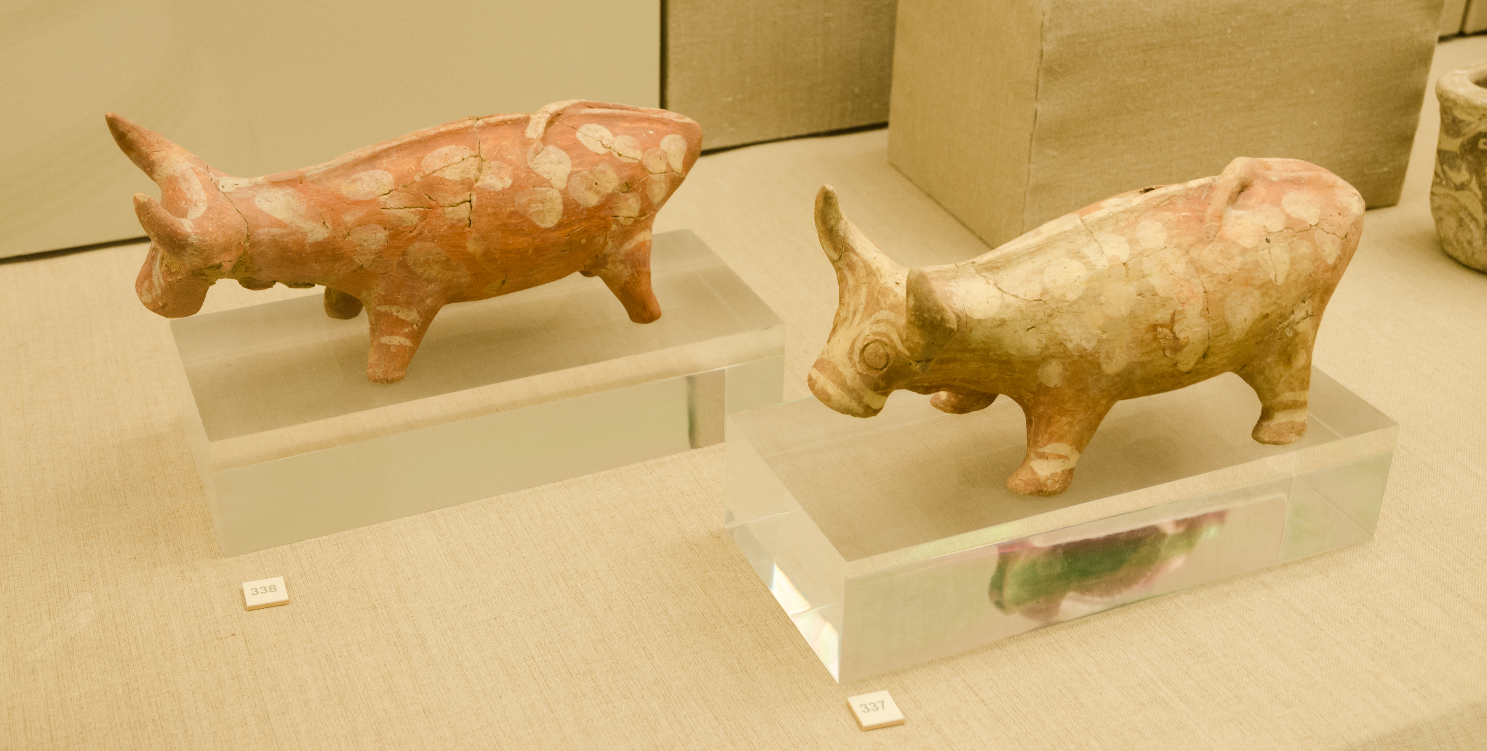 Bull figures from the Archaeological site of Akrotiri, Museum of prehistoric Thera, Santorini, Greece.